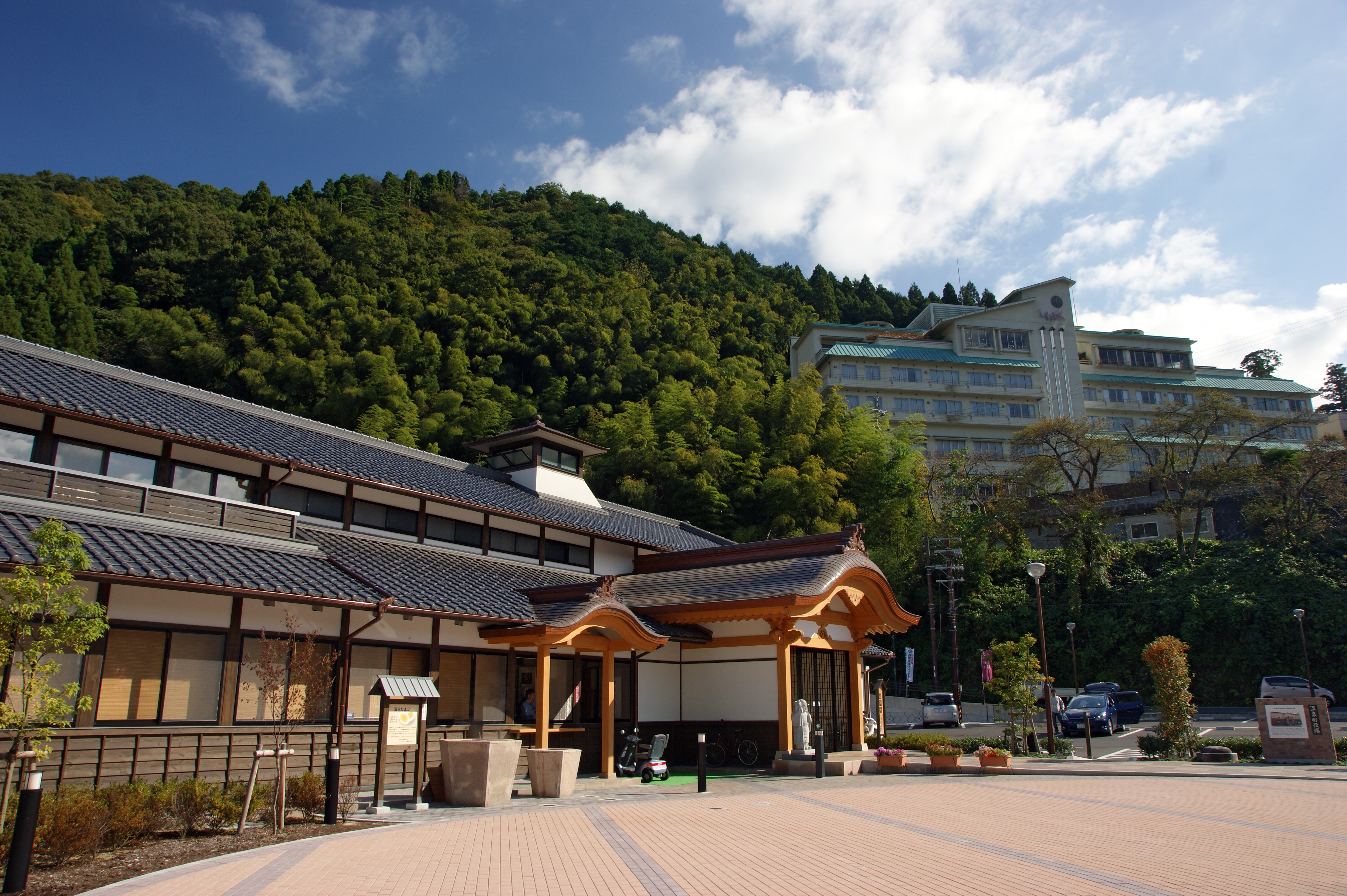 Yakushiyu of Yumura Onsen, Shinonsen, Hyogo prefecture, Japan